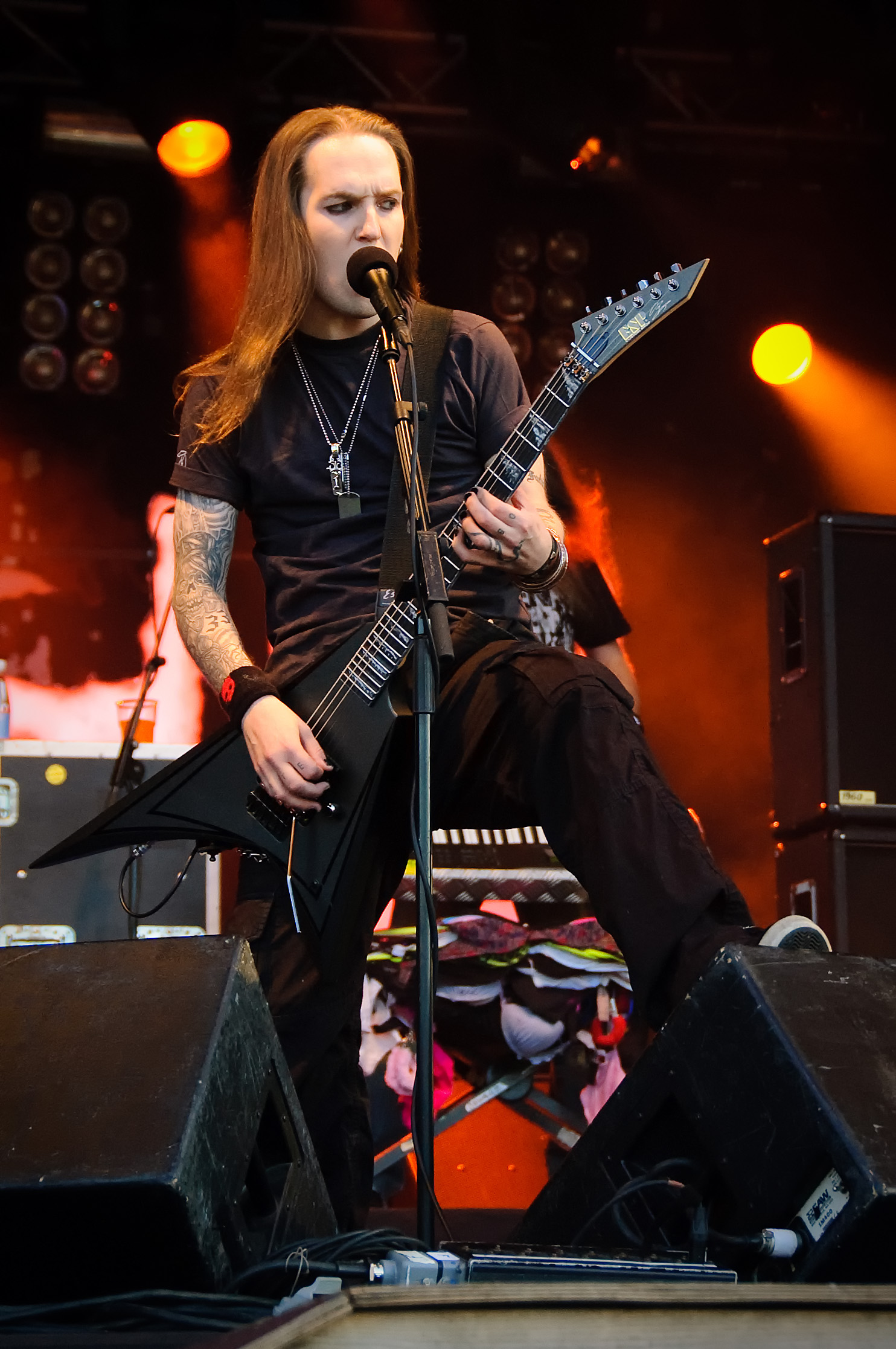 Guitarist and vocalist Alexi Laiho of Children of Bodom performing at the Ilosaarirock festival in Joensuu, Finland.